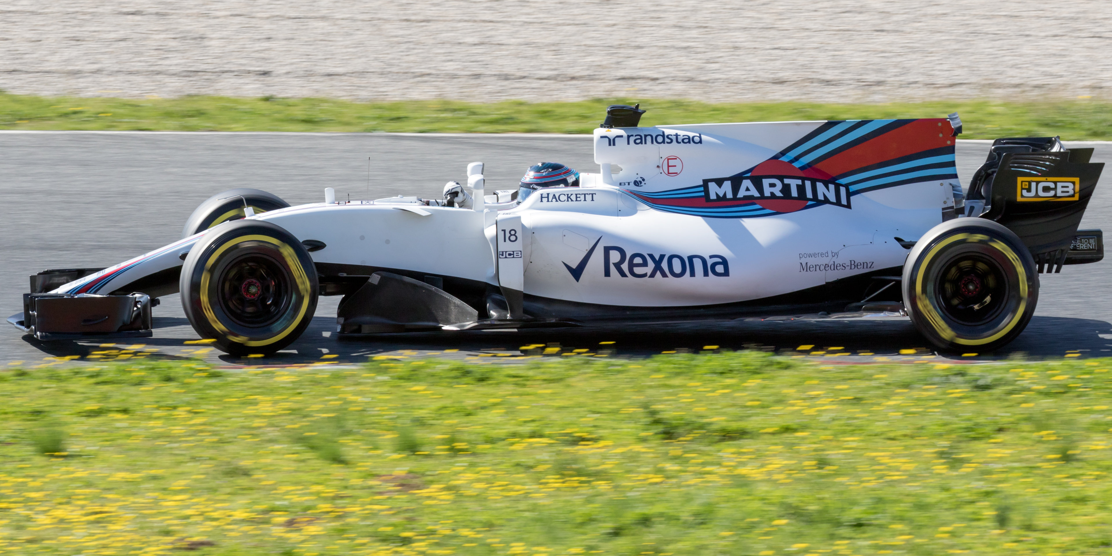 Formula One 2017 Catalonia test (27 February-2 March): Lance Stroll (Williams)